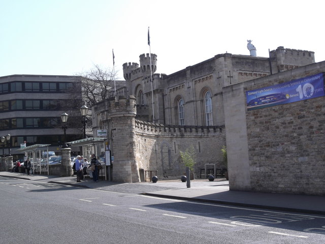 County Hall, New Road, Oxford